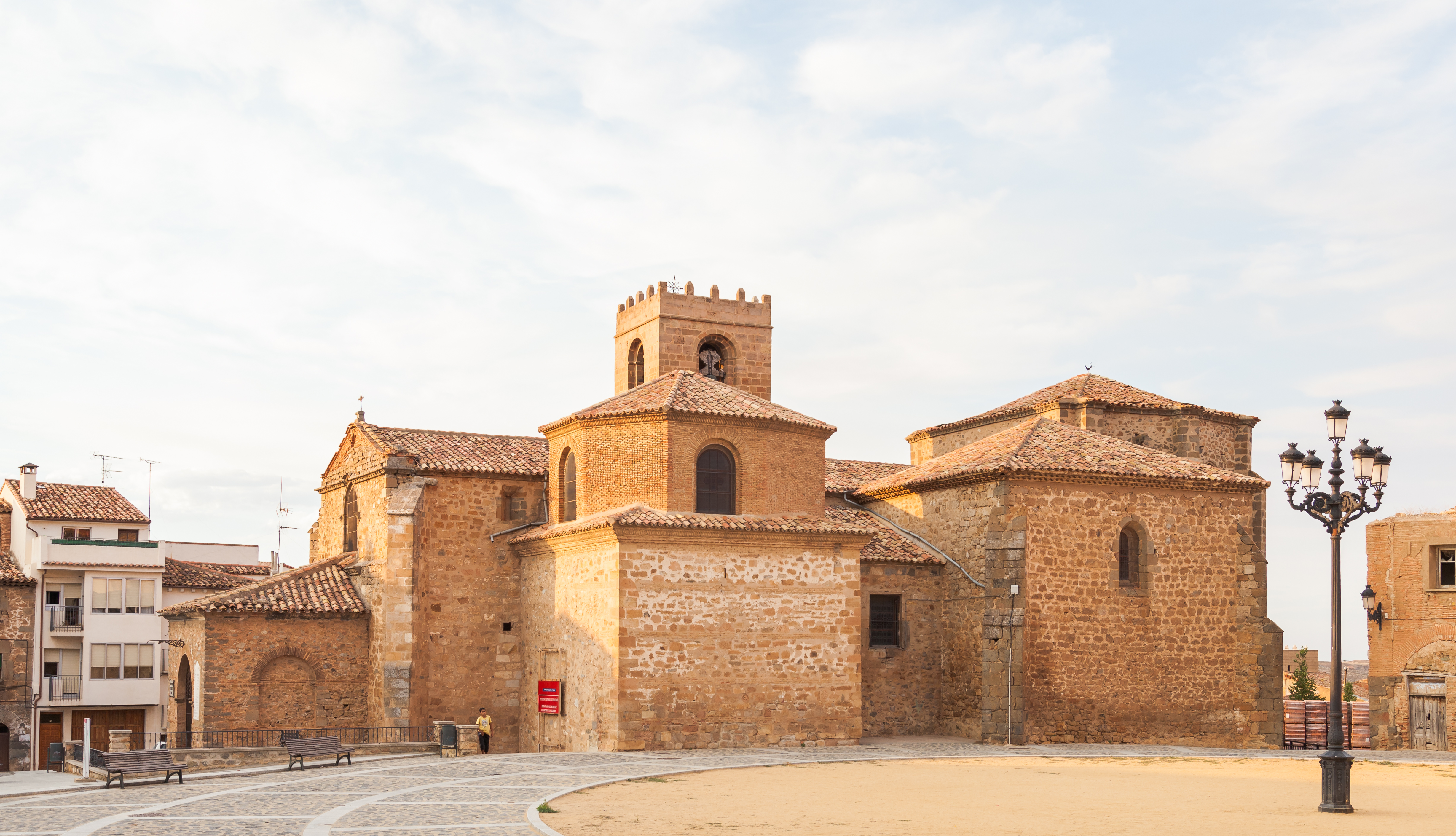 Church of San Miguel, Ágreda, Spain